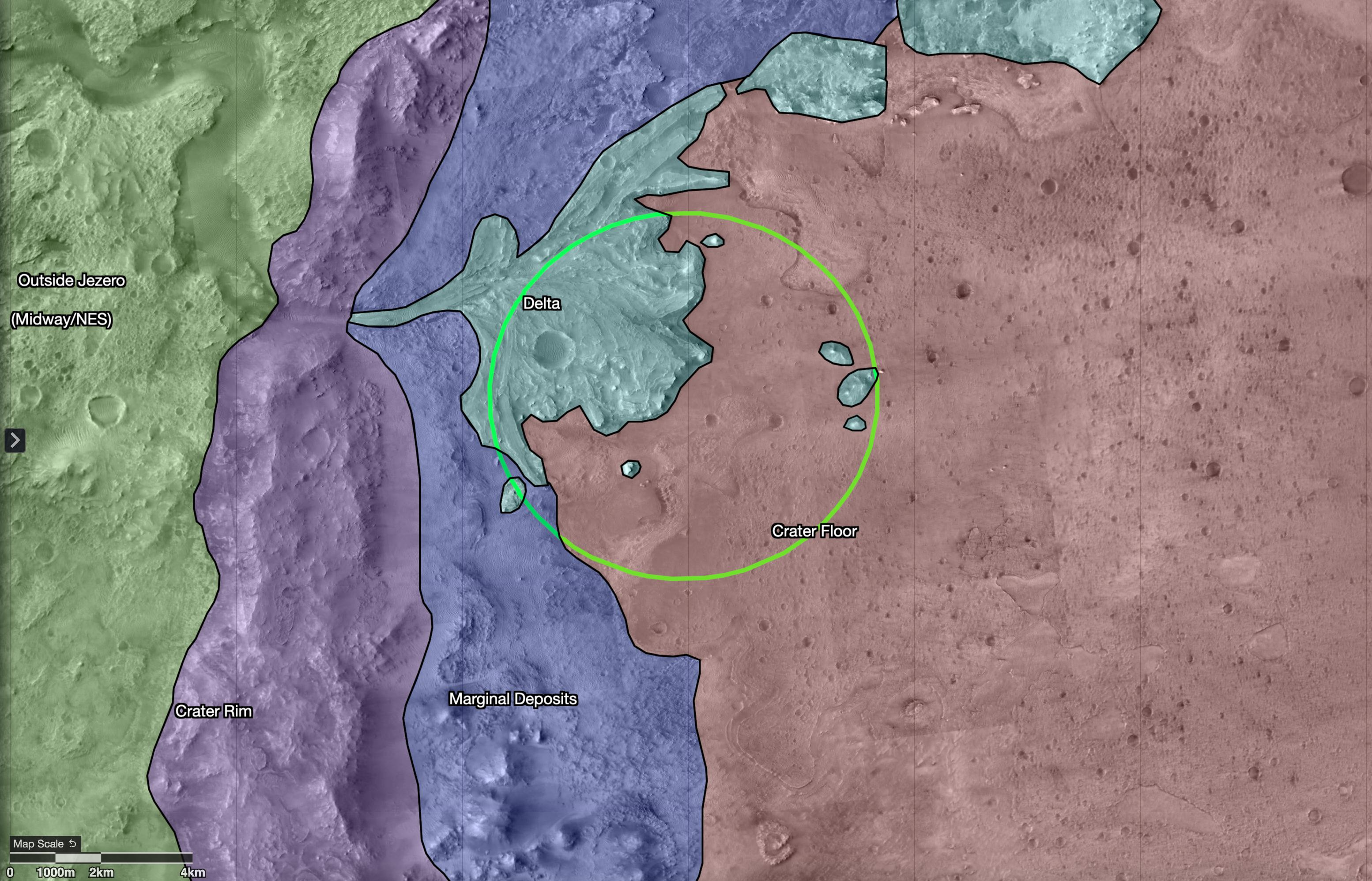 PIA23976: Map of Regions Around Mars' Jezero Crater \ This map shows regions in and around Jezero Crater on Mars, the landing site of NASA's Perseverance rover. The green circle represents the rover's landing ellipse. Jezero held a lake and river delta billions of years ago; scientists want to capture samples of rock in these regions that may contain evidence of ancient microscopic life, which will be returned to Earth by a future mission for extensive study. Each of these regions represents a distinct area that may hold different kinds of evidence. The outermost region, called Midway/Northeast Syrtis, could be considered for exploration after the rover's primary mission. The map was created in a tool called Campaign Analysis Mapping and Planning (CAMP), developed by NASA's Jet Propulsion Laboratory, a division of Caltech in Southern California, which manages the Mars 2020 Perseverance rover mission for NASA's Science Mission Directorate in Washington. Data for the map was provided by the High-Resolution Imaging Science Experiment (HiRISE), one of the cameras aboard NASA's Mars Reconnaissance Orbiter, also managed by JPL. The University of Arizona, in Tucson, operates HiRISE, which was built by Ball Aerospace & Technologies Corp., in Boulder, Colorado.